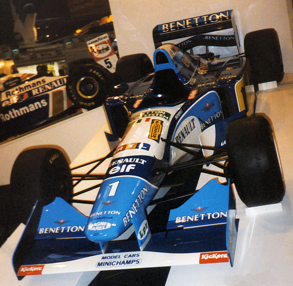 Michael Schumacher's Benetton B194 with the B195's livery at the 1996 Autosport International Show